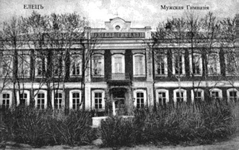 Elets classical male gymnasium